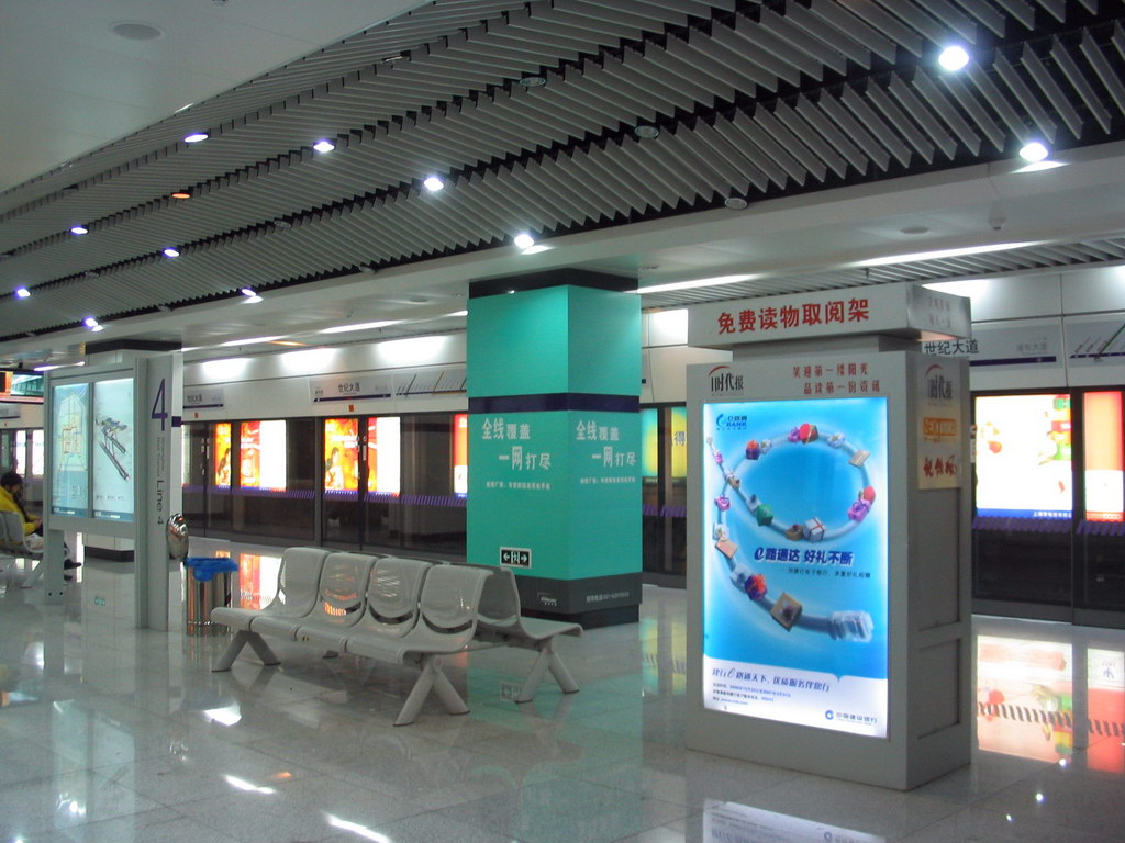 世紀大道站-4號線月台 Line 4 Platform of Shiji Avenue Station